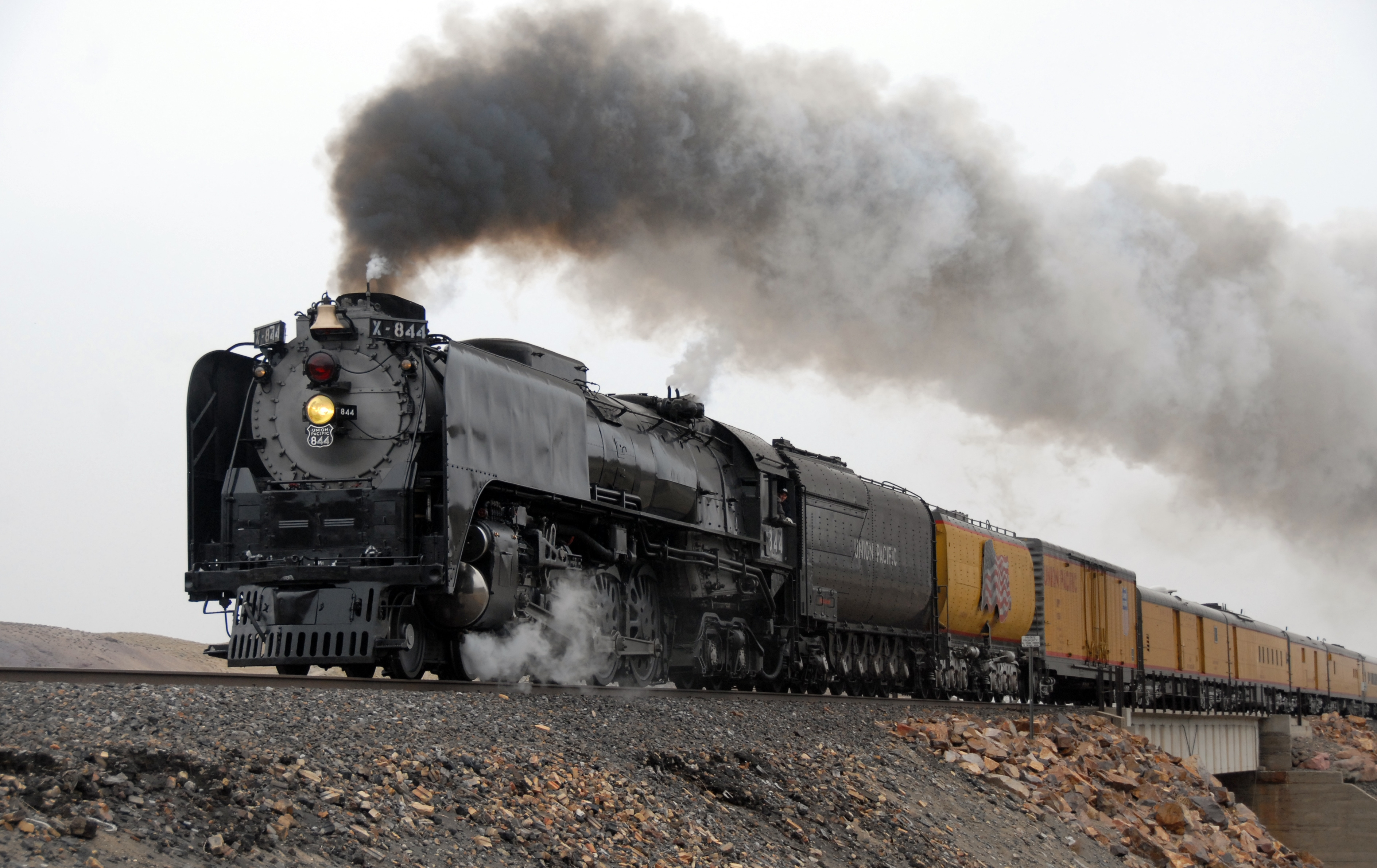 Union Pacific 844 at Painted Rocks, Nevada, on a run from Elko to Sparks, Nevada, April 15, 2009.